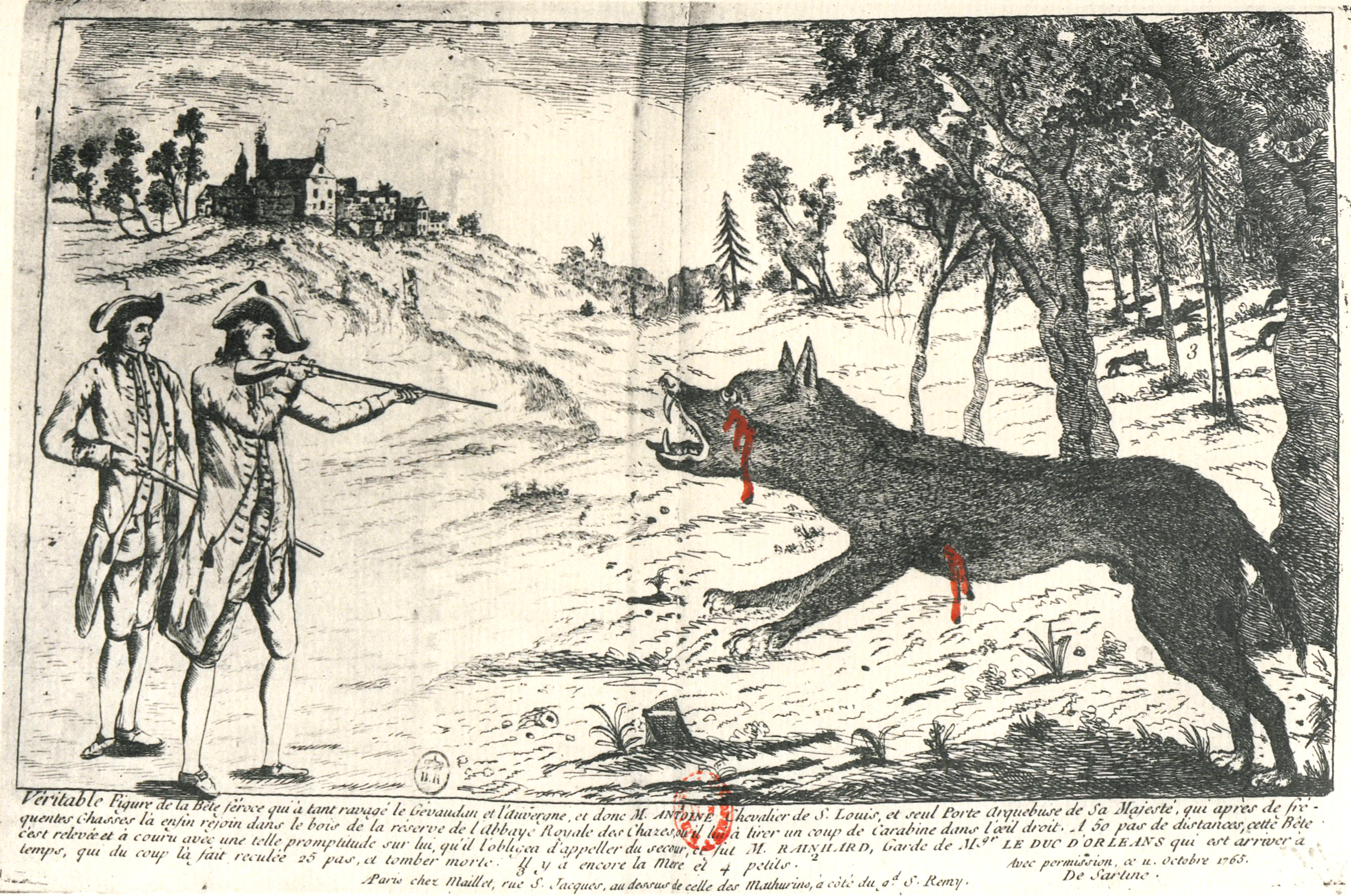 18th century print depicting François Antoine slaying the Beast of Gévaudan on 21 September 1765, in Chazes, Gevaudan, France.